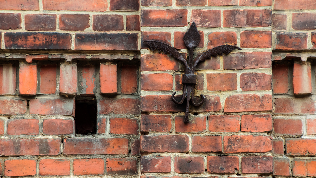 Farm building with frieze, wrought iron lilies and brick stamp (Köppen Parey Rathenow)